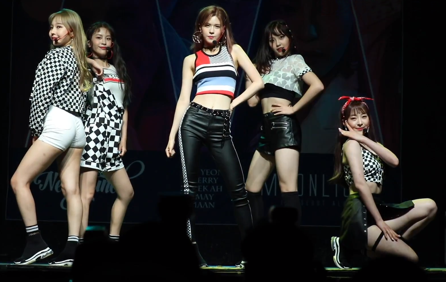 Neon Punch performing "Moonlight" at their debut showcase on June 26, 2018